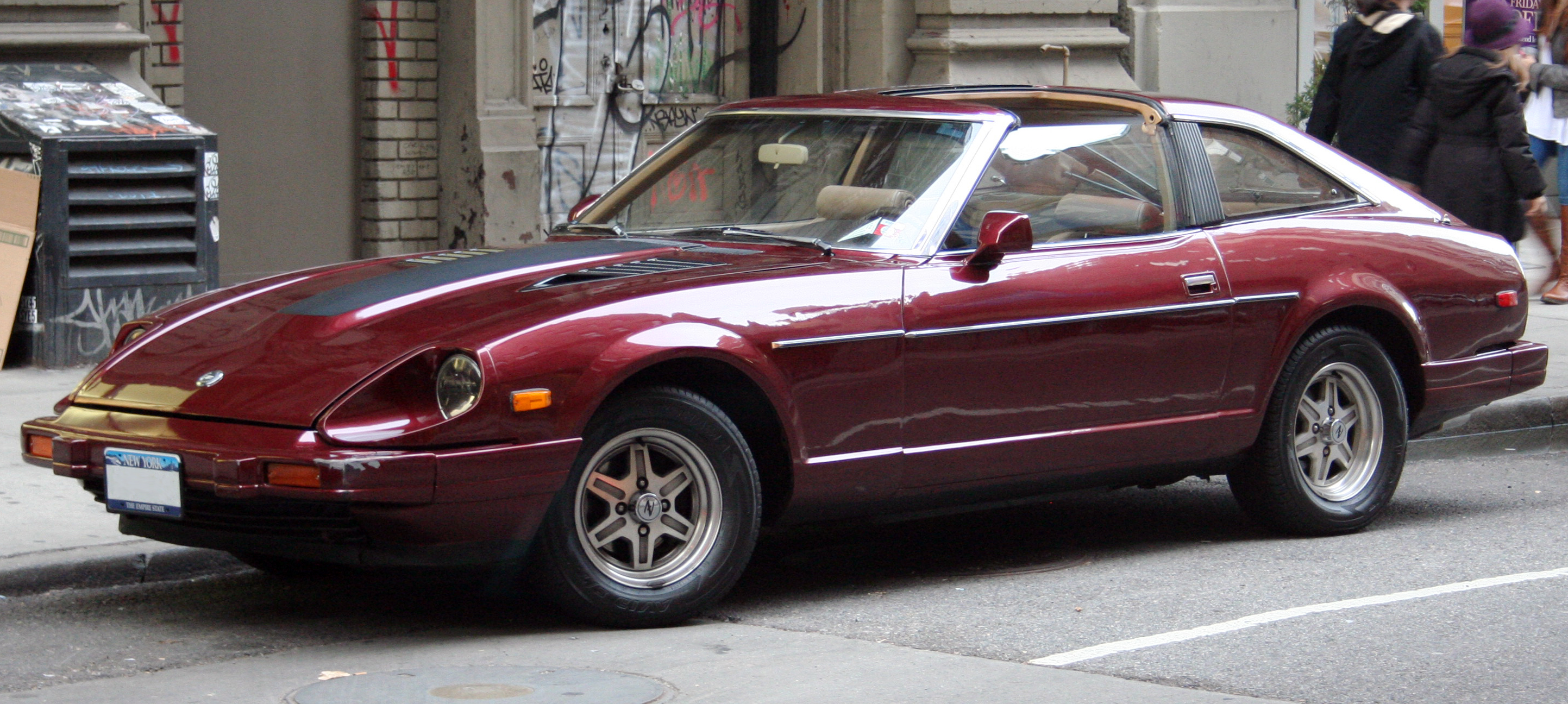 1982 Datsun 280ZX (naturally aspirated 2+2 version)